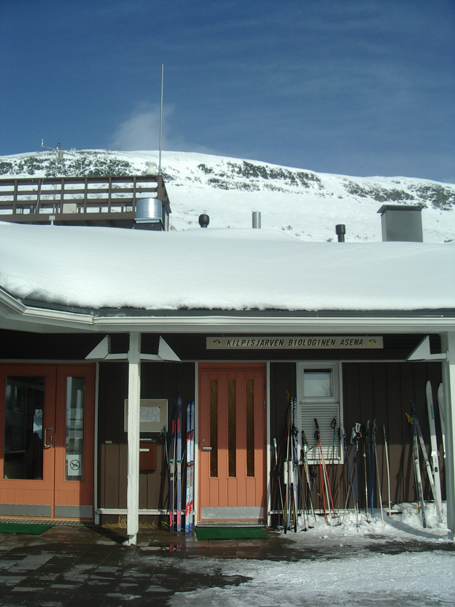 Kilpisjärvi Biological Station in Kilpisjärvi, Enontekiö, Finland. Station belongs to University of Helsinki, the Faculty of Biosciences.